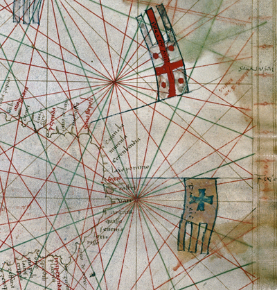 Detail from the Nautical chart by Pietro Vesconte, depicting Georgian Black Sea coast, 1321